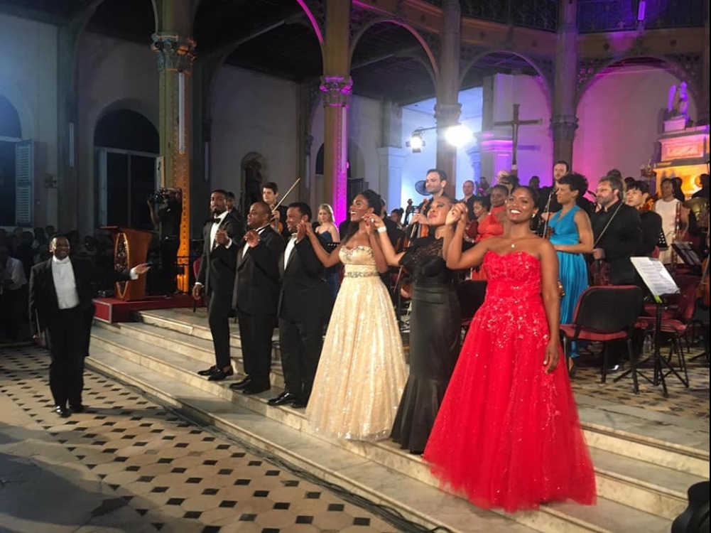 Saint-Georges International Music Festival, Église Saint-Pierre-et-Saint-Paul de Pointe-à-Pitre, 2019, Marlon Daniel, Saint-Georges Festival Orchestra, Léîla Brédent, Janinah Burnnett, J'Nai Bridges, Chauncey Packer, Darnell Ishmel, Solomon Howard